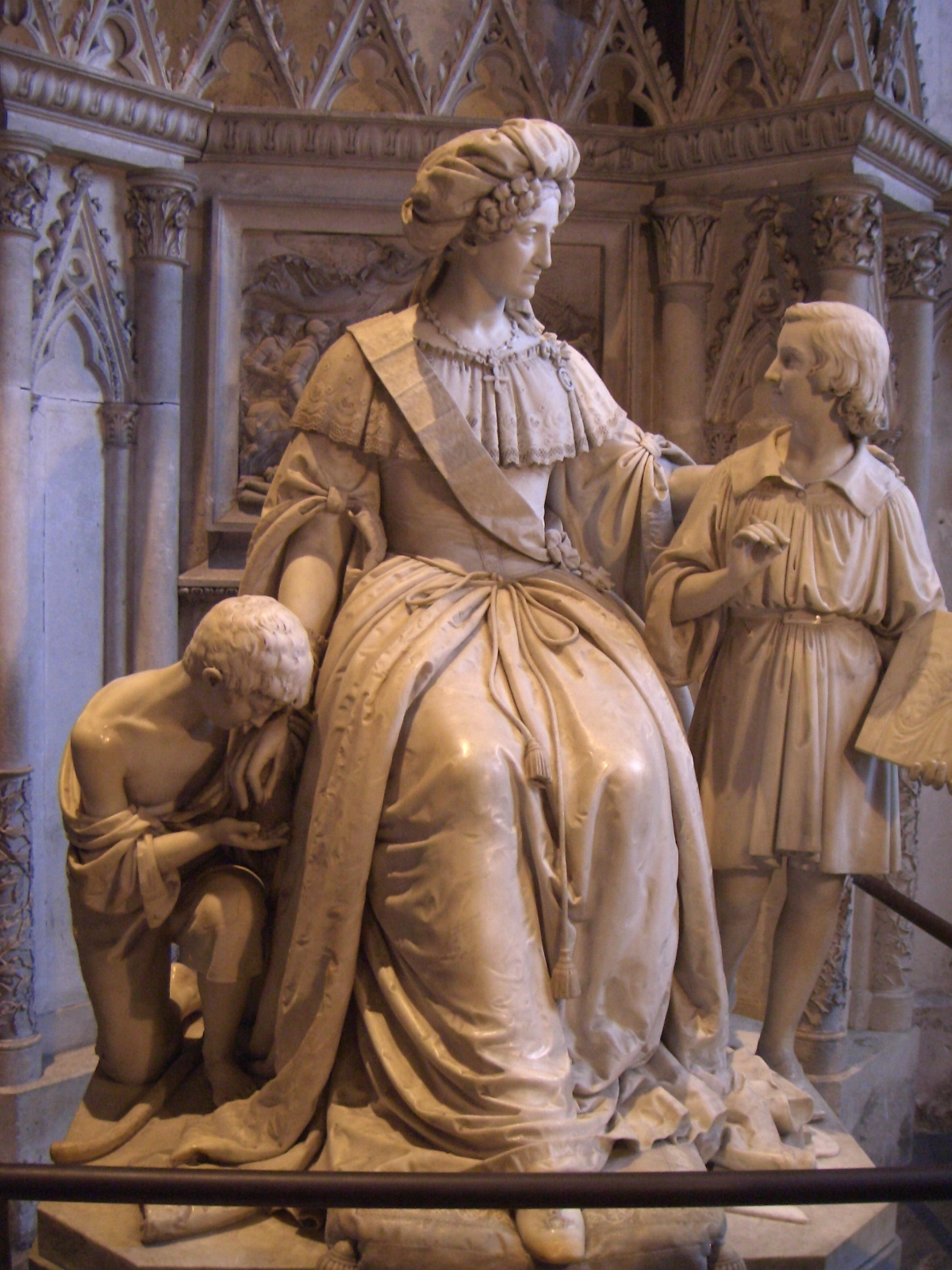 Maria Cristina, Princess of Bourbon-Two Sicilies (1779-1849), queen consort of Sardinia, daughter of Ferdinand I of the Two Sicilies and Marie Caroline of Austria, wife of Charles-Félix of Savoy. Marble Statue on her sepulchre in Abbey of Hautecombe, Savoy, France